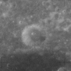 Sabatier, on the moon. Camera altitude 178 km, sun elevation 51 deg.